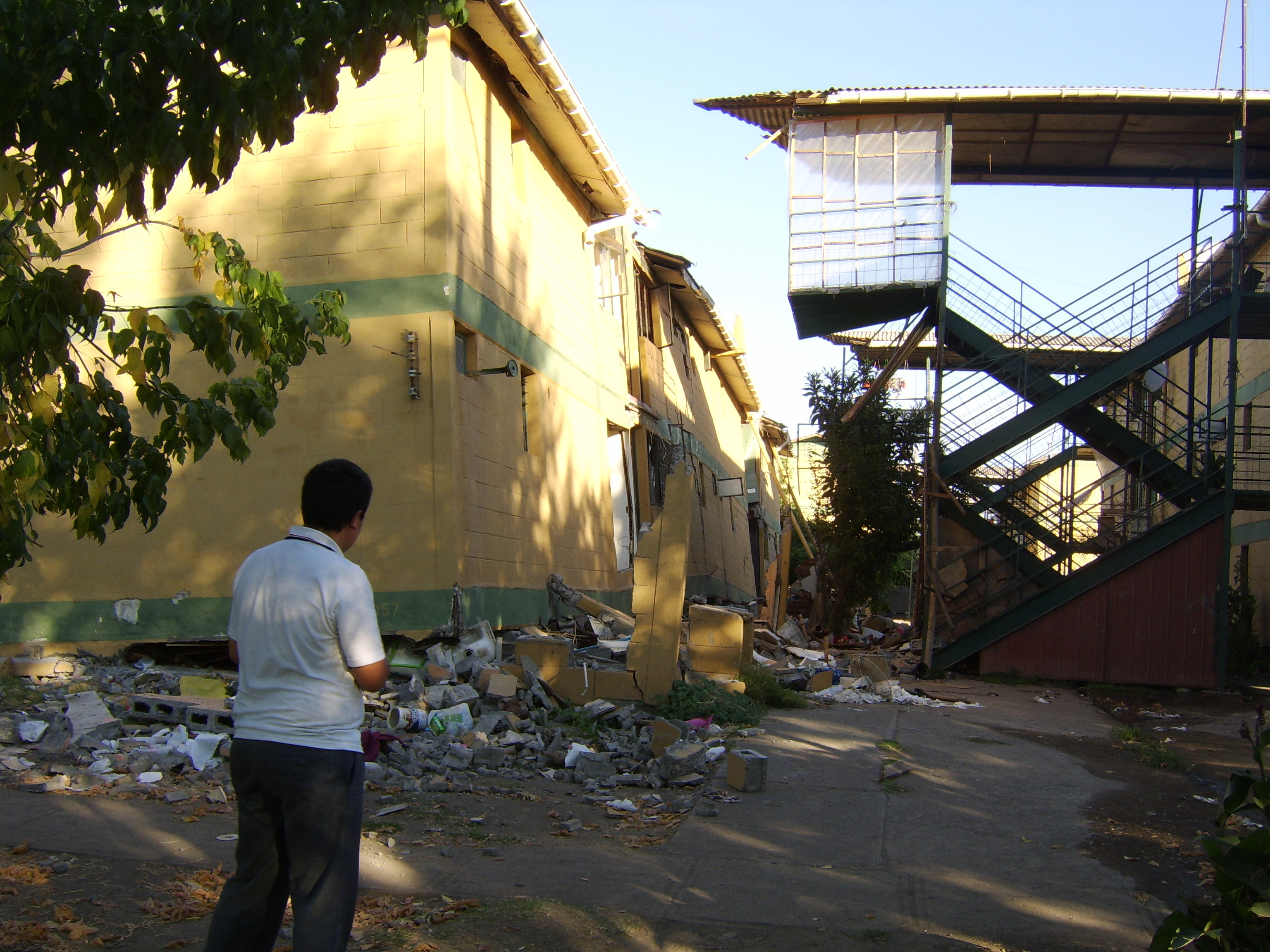 Wikinews' Diego Grez in front of destroyed departments from Paniahue, Santa Cruz, Chile.